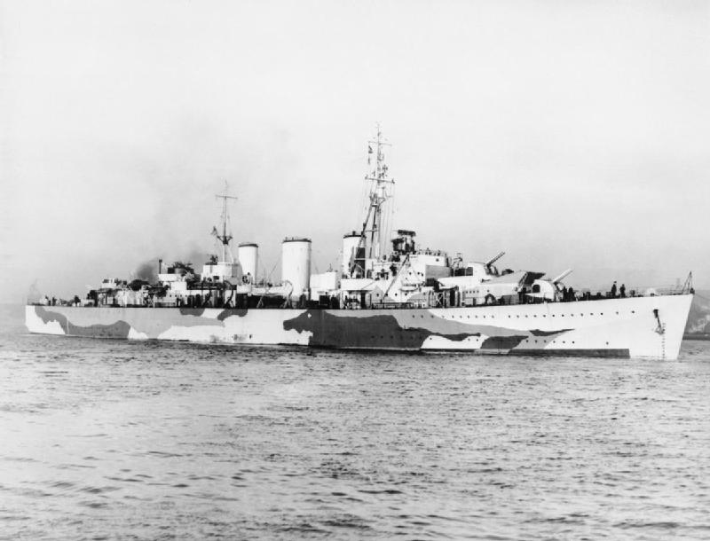 HMS ABDIEL, underway, coastal waters.